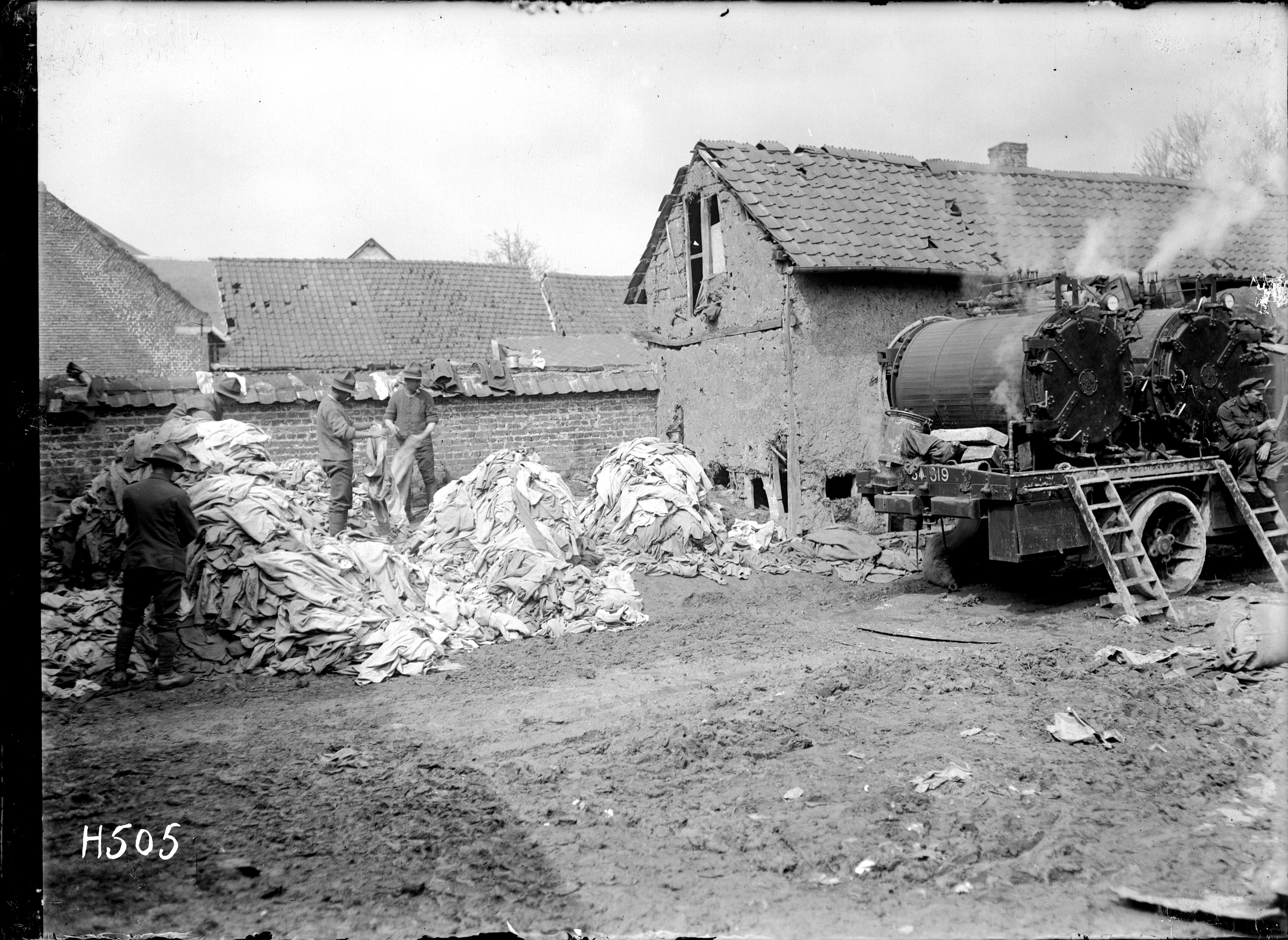 Shows World War I soldiers sorting piles of underclothing for disinfecting in the mobile boilers that are operating (on the right). Photograph taken Bus-les-Artois l5 April 1918 by Henry Armytage Sanders. Inscriptions: Inscribed - Photographer's title on negative -bottom left: H505. Quantity: 1 b&w original negative(s). Physical Description: Dry plate glass negative 4 x 5 inches Disinfecting army underclothing, France. Royal New Zealand Returned and Services' Association :New Zealand official negatives, World War 1914-1918. Ref: 1/2-013123-G. Alexander Turnbull Library, Wellington, New Zealand.